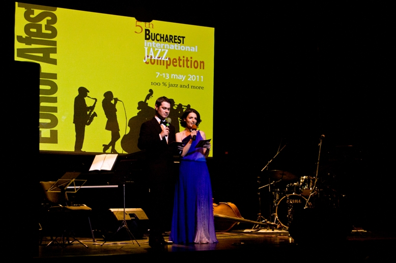 Official Image of the 2012 EUROPAfest Photo by Ana C. Dobrescu